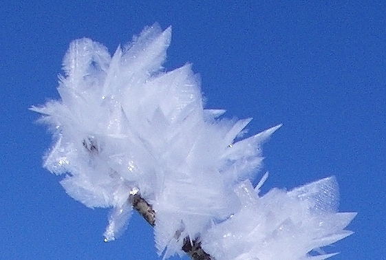 Feather ice on the plateau above Alta, Norway at 70ºN. Forms when night temperature drops below −30°C (i.e. −22°F).